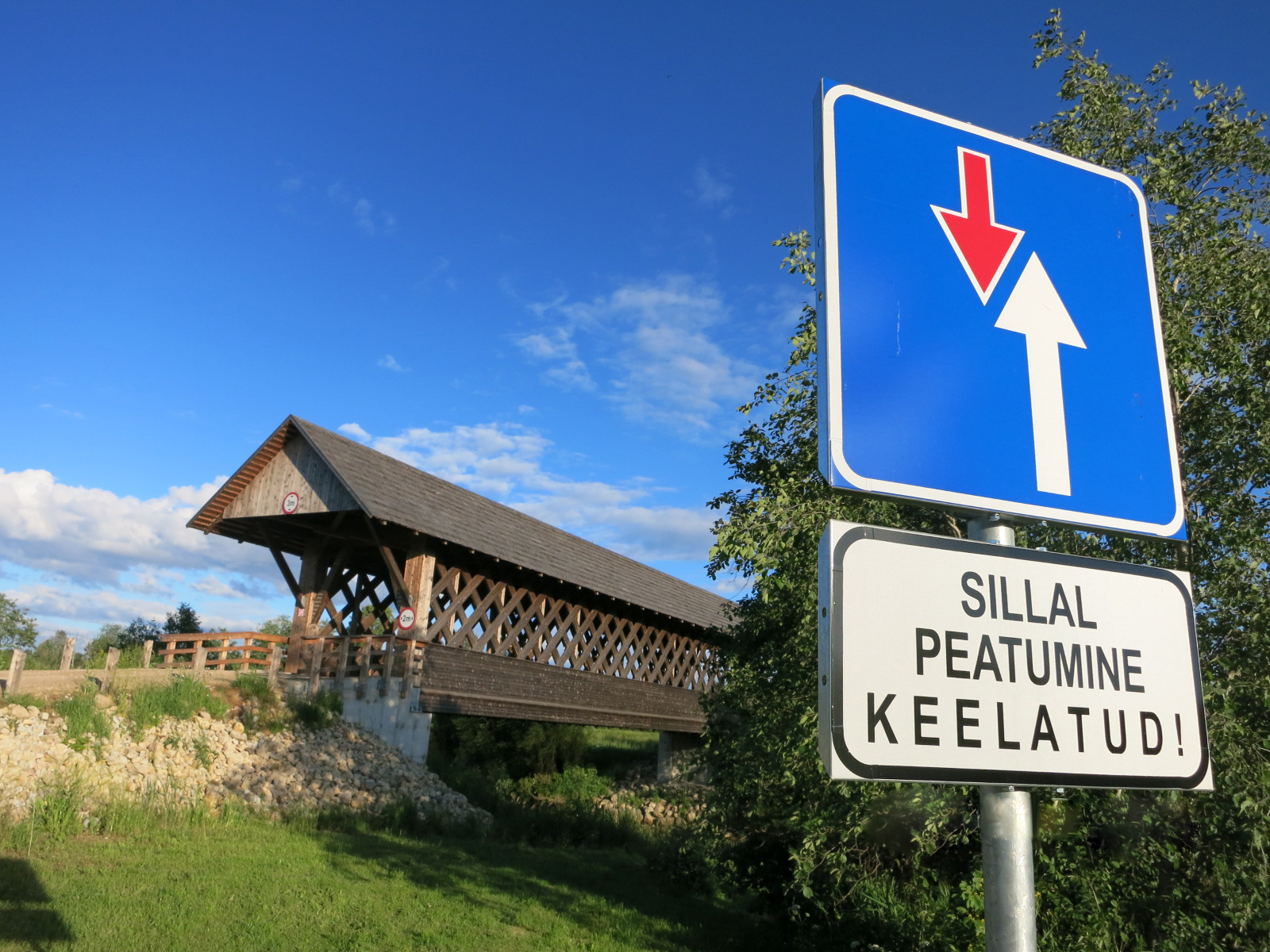 Järuska bridge (2013) across Rannapungerja river, in Lemmaku village, Ida-Virumaa County. Unique in Estonia because of its roof.